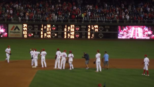 Players congratulate one another after winning on August 22, 2014